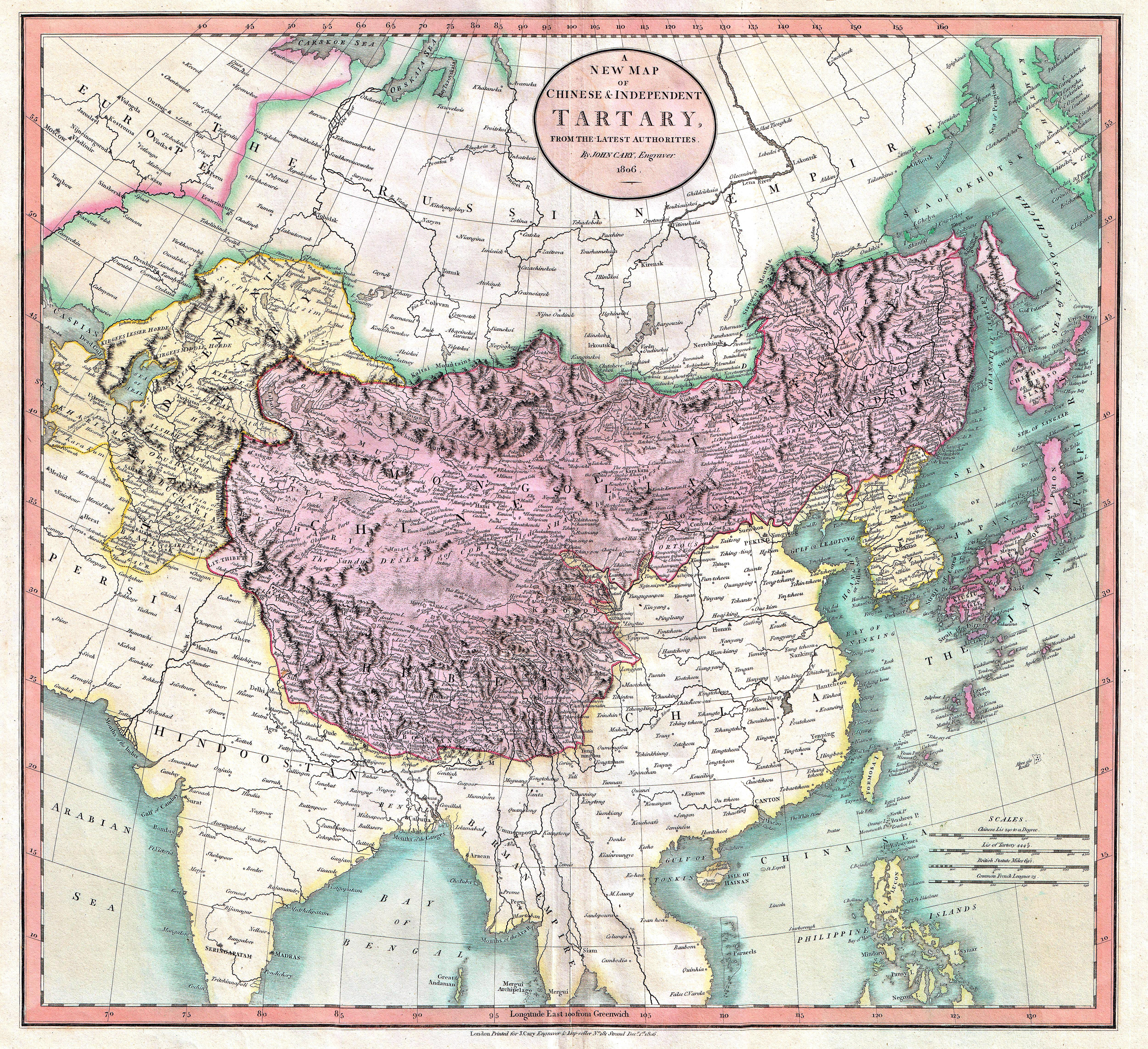 An exceptionally beautiful example of John Cary’s important 1806 map of Mongolian and Independent Tartary. Covers Central Asia from the Caspian Sea to Japan, extends as far north as the Obskaia Sea and as far south as India, Burma and the Philippines. Includes the modern day nations of Uzbekistan, Kazakhstan, Turkmenistan, Kirgizstan, Tajikistan and Mongolia. One of Cary’s most interesting maps. Central Asia, despite hundreds of years of passing trade on the Silk Routes, was still, at the turn of the century a largely unknown land. Cary attempts to show some of the Silk Route passages, especially to the north of the Gobi, but ultimately admits, “The Geography of these parts is extremely obscure.” All in all, one of the most interesting and few maps of Central Asia to appear in first years of the 19th century. Prepared in 1806 by John Cary for issue in his magnificent 1808 New Universal Atlas. (NOTE: The reproduction of the colors in this map appear to be incorrect, as Japan and Tibet were never part of Chinese Tartary yet appear to be the same color as it.)